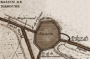 Detail of a map of Canal du Midi from the 18. century, slightly retouched